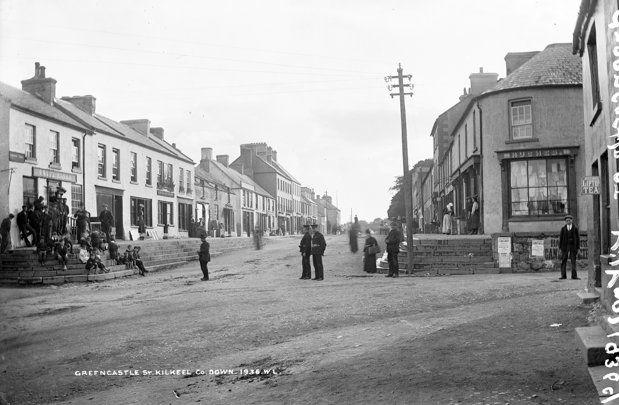 Hoping that the the posters for A Sacred Cantata at the parish church might help us to date this photograph of Greencastle Street in Kilkeel, Co. Down! When I really squint, I'm getting Wednesday Aug 14 1907?? See what you all think. Failing that, the sign for Hanneford's Canadian Circus should be of use. NLI Ref.: L_CAB_01936